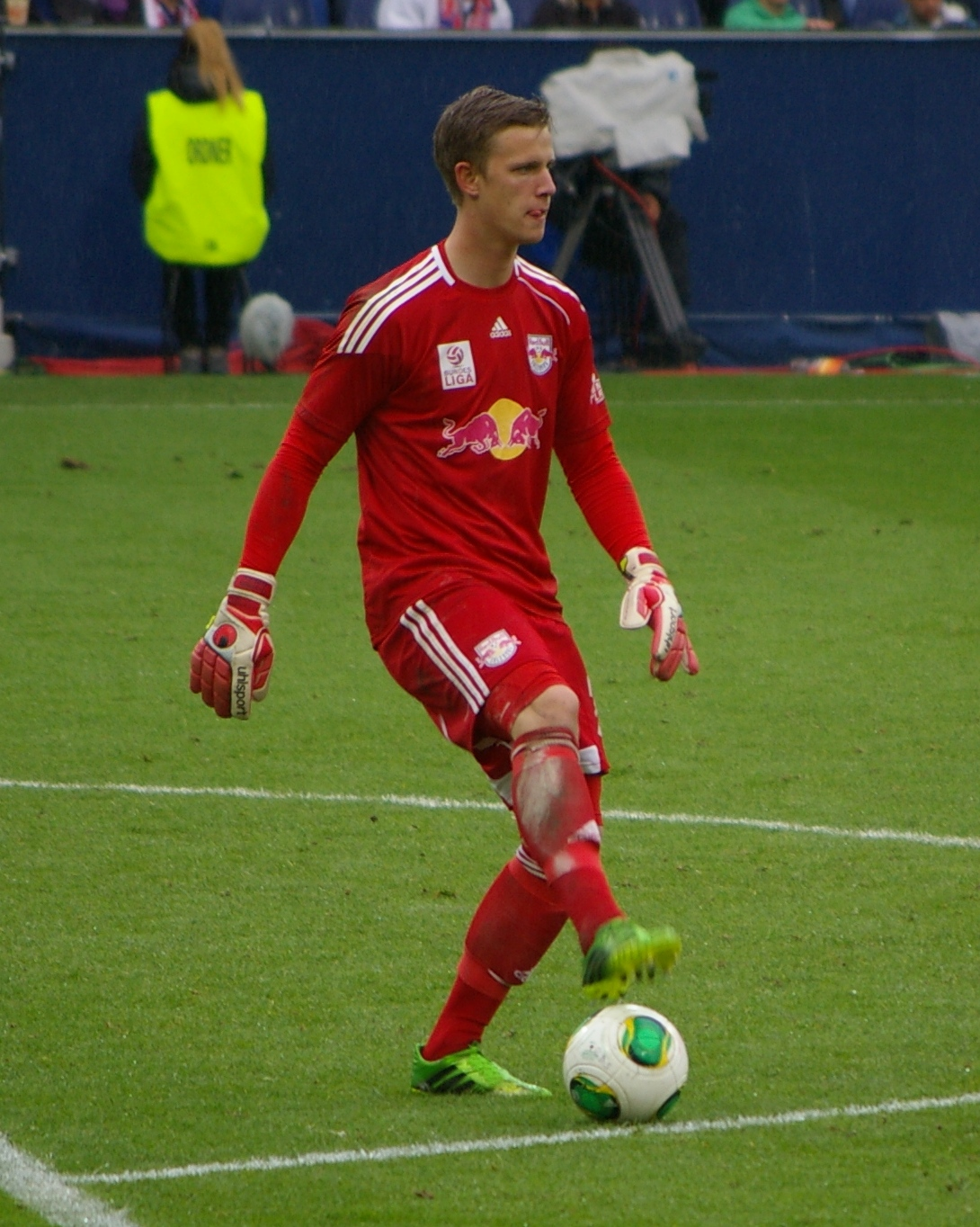 goalkeeper FC Red Bull Salzburg first match in the Bundesliga